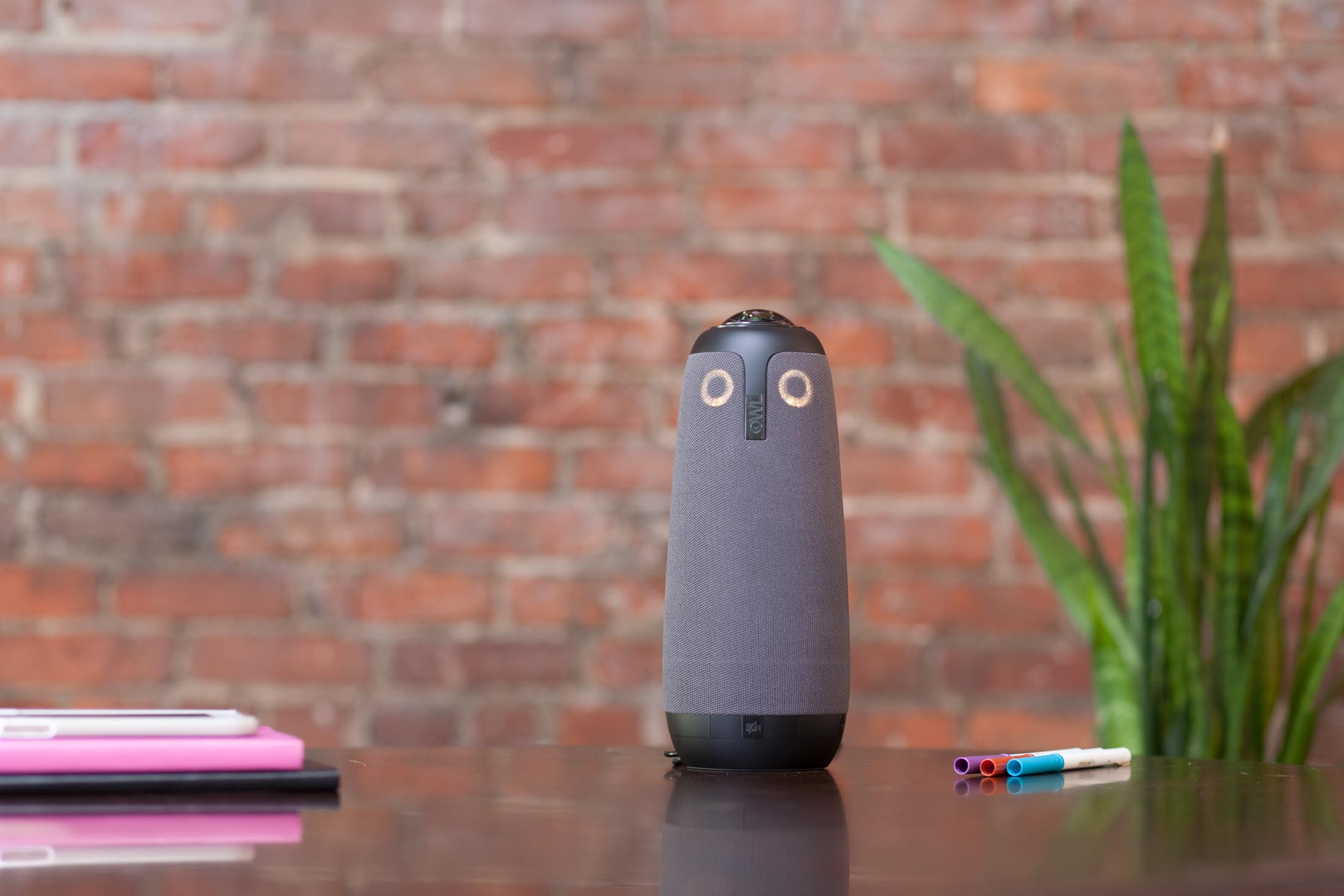 Owl Labs product. They make Video Conferencing hardward.